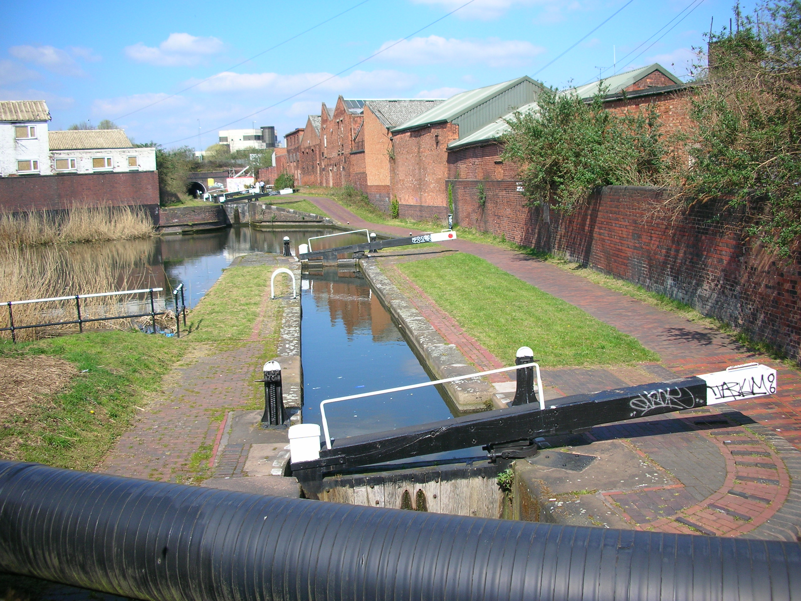 Ashtead Locks on the Digbeth Branch Canal, Birmingham, England. Photographed by me 11 April 2007. Oosoom